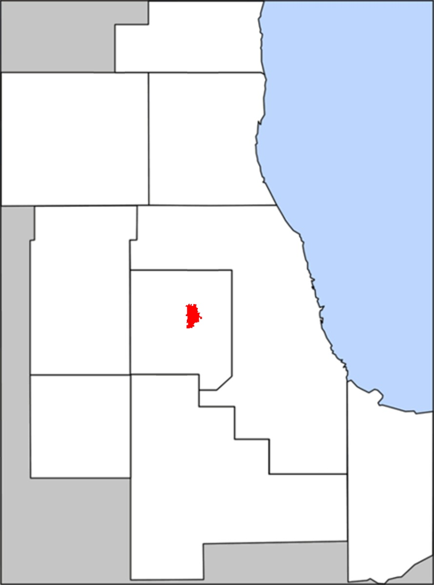 Category:Illinois city locator maps